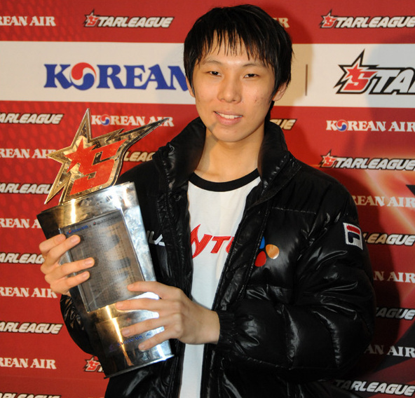 Korean Progammer. CJ EffOrt. Kim Jeong-woo